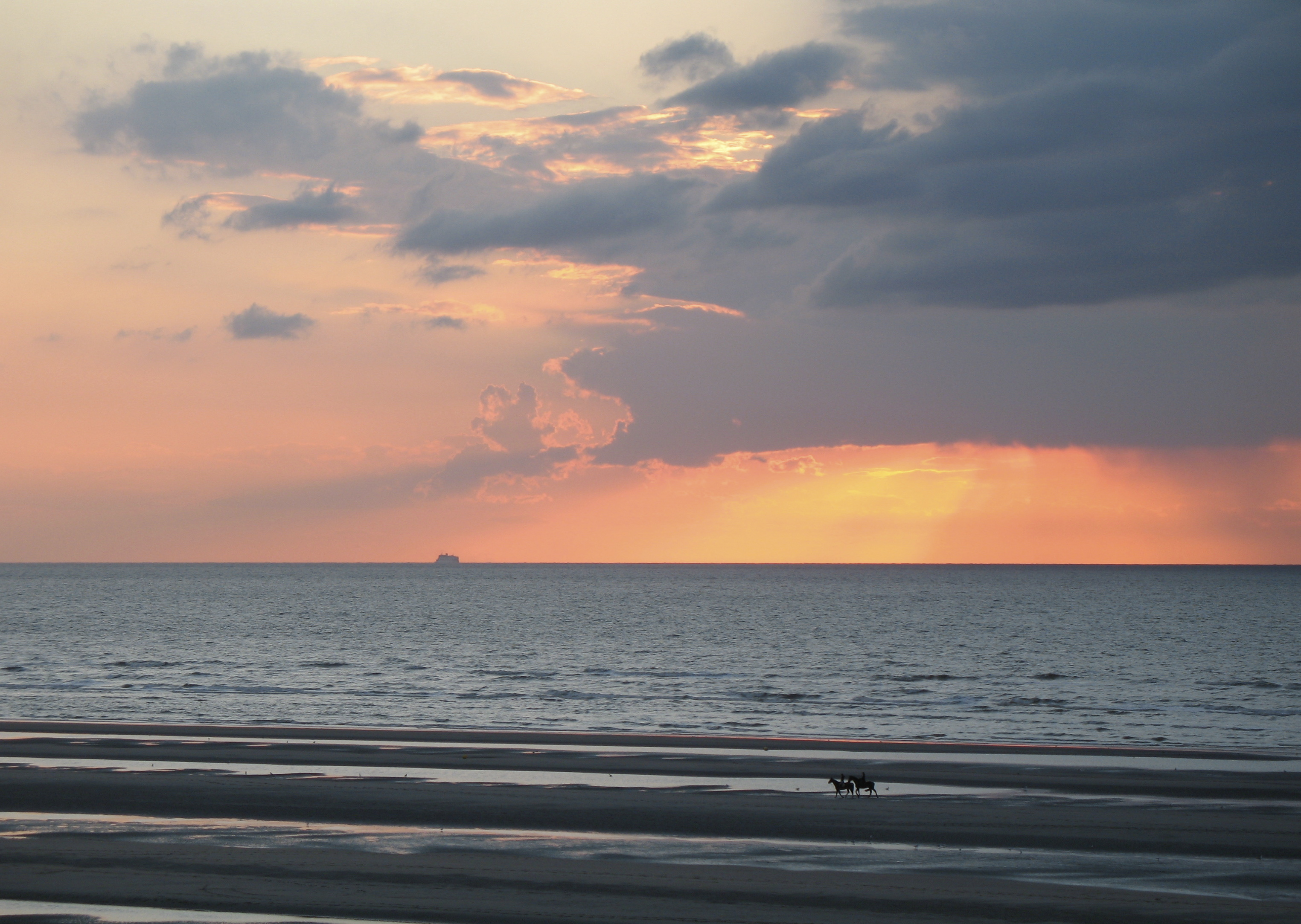 Evening light on the North Sea in July (Oostduinkerke, Belgium)